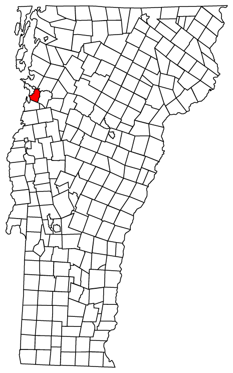 Description: Map of Vermont towns with South Burlington highlighted Source: Map created by Jared C. Benedict on 26 March 2004. Copyright: © Jared C. Benedict.